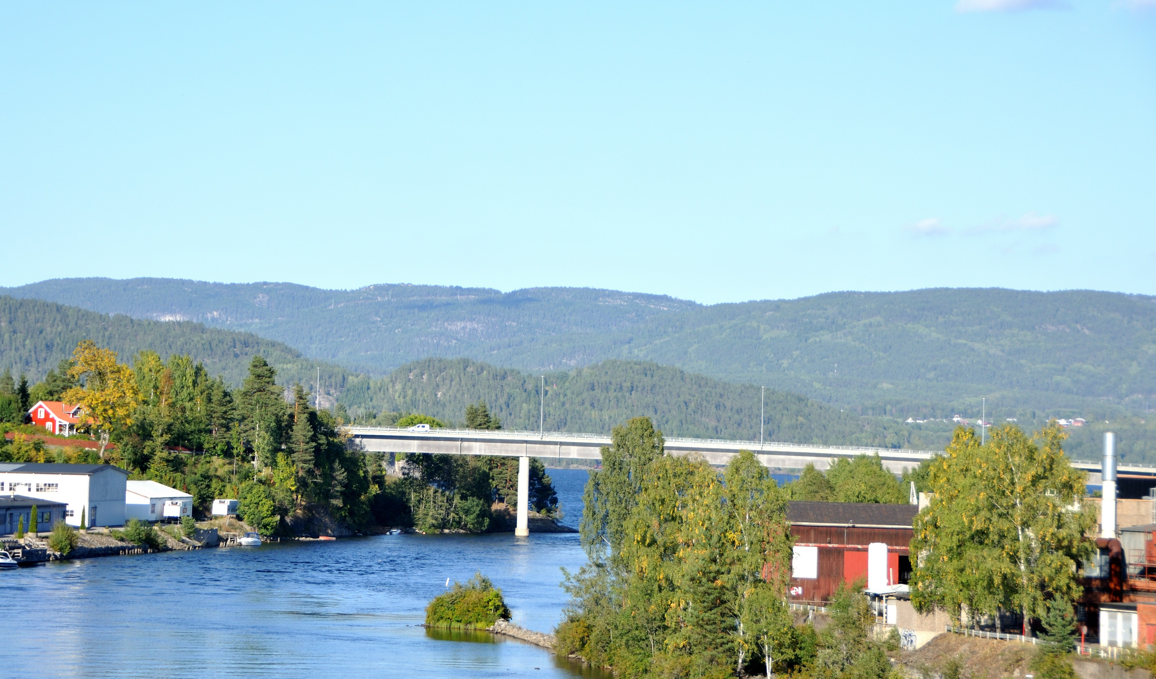 Ulefoss road bridge, 1978, seen downstream Eidselva